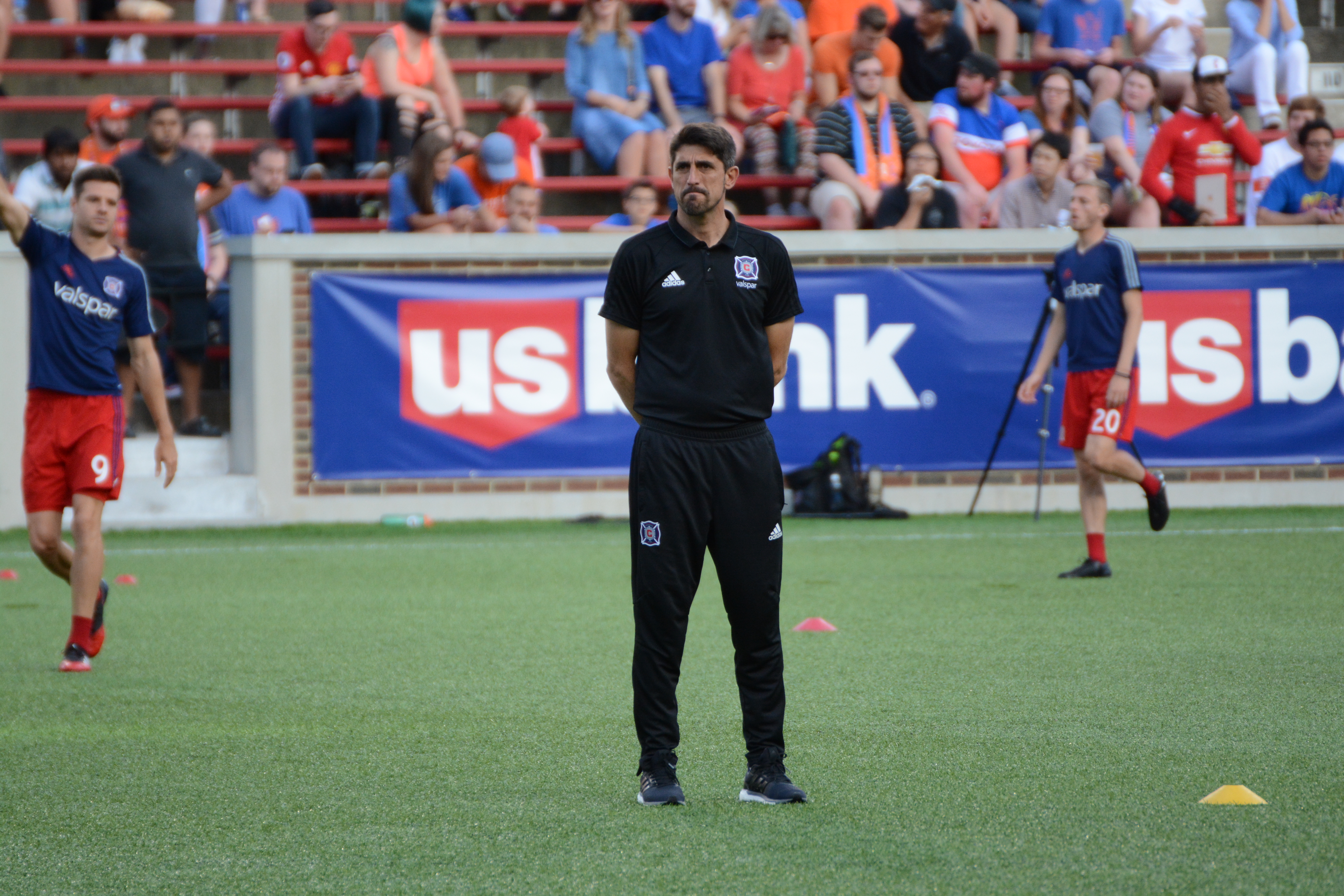 Taken at a U.S. Open Cup match between FC Cincinnati and Chicago Fire SC at Nippert Stadium in Cincinnati, Ohio on June 28, 2017.